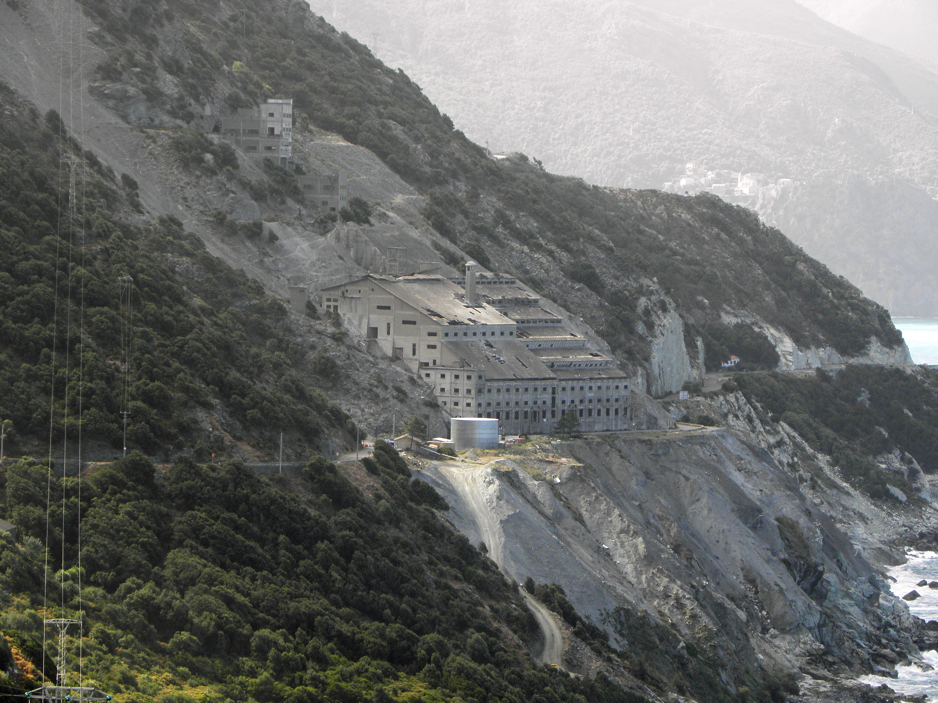 Production building of the formar amiante mine of Canari, Corsica